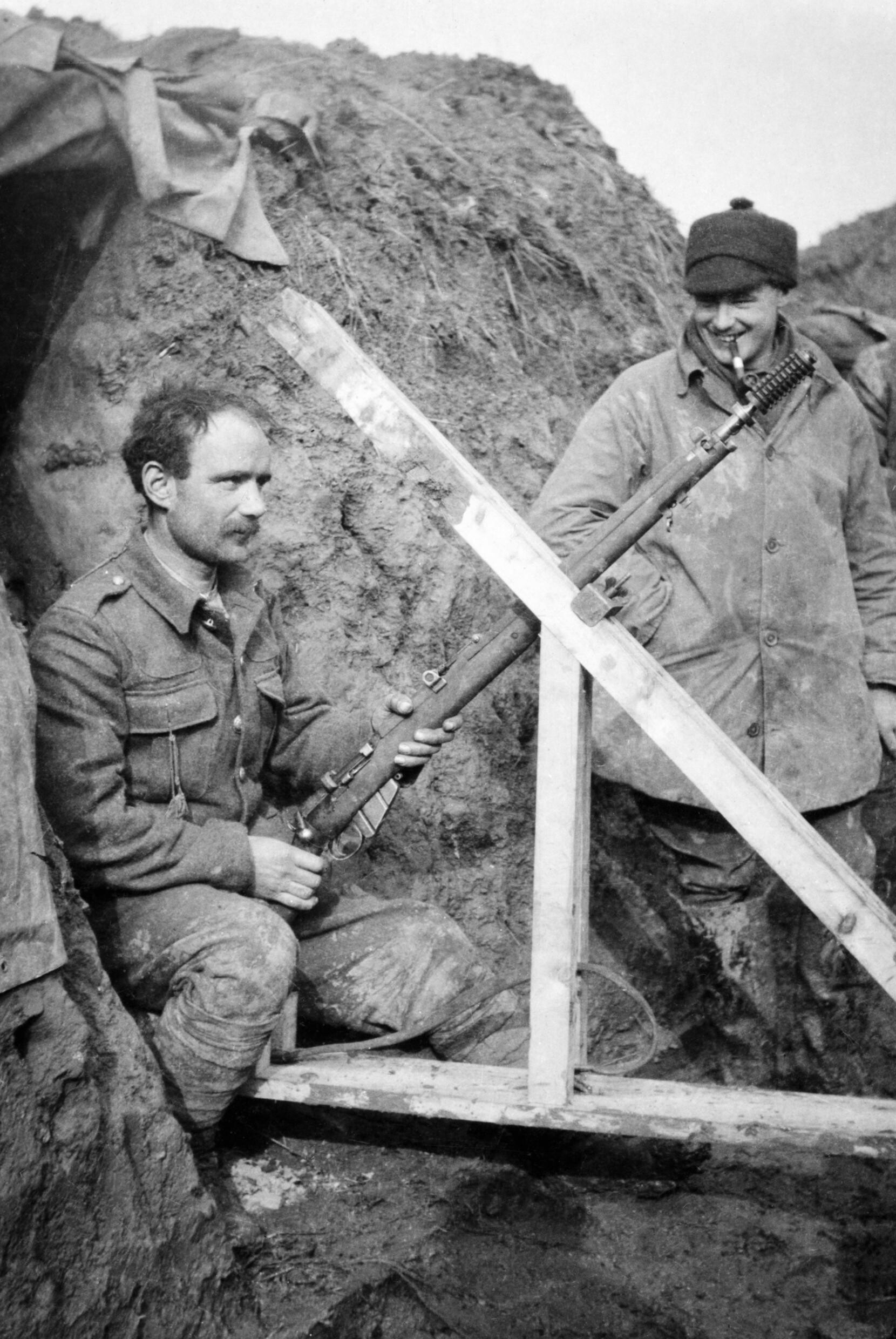 1st Battalion Cameronians (scottish Rifles) on the Western Front, 1914 - 1915 2nd Lieutenant L J Barley of the 1st Battalion, Cameronians (Scottish Rifles), watching as a rifle grenade is prepared for firing from trenches at Grande Flamengrie Farm on the Bois Grenier sector of the line during February 1915.